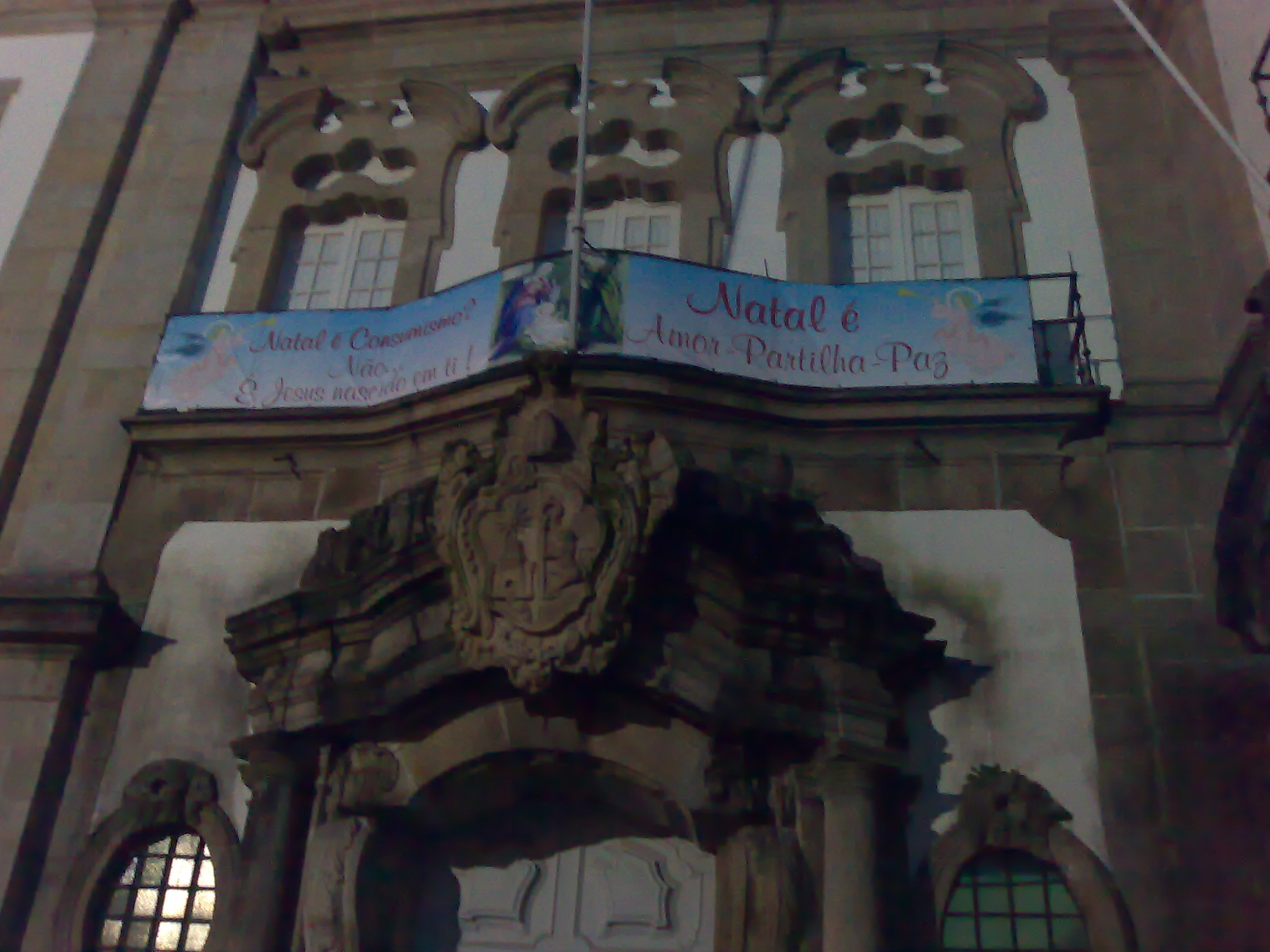 Detail from the monastary of Santo Tirso, Portugal.